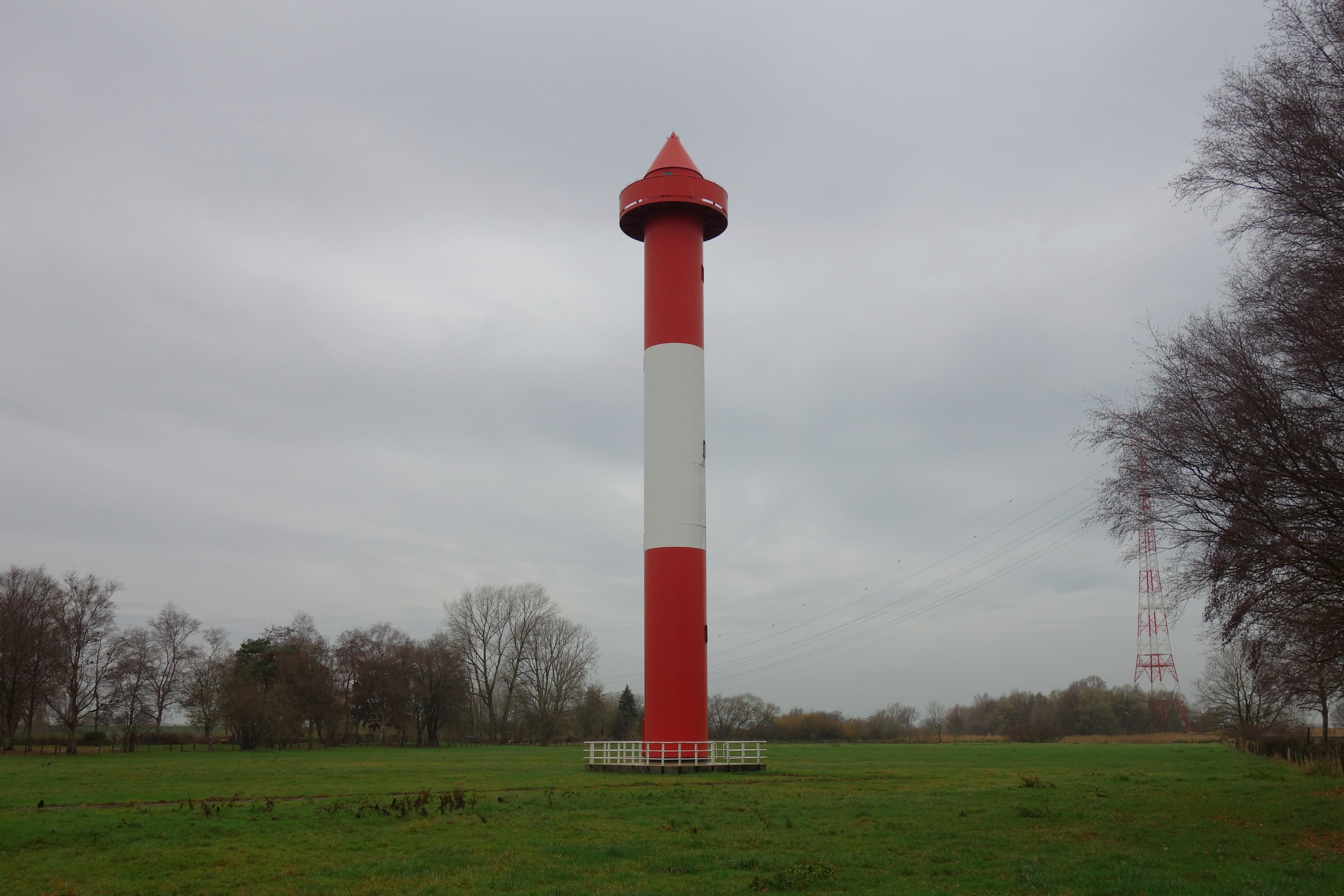 Juliusplate range rear light